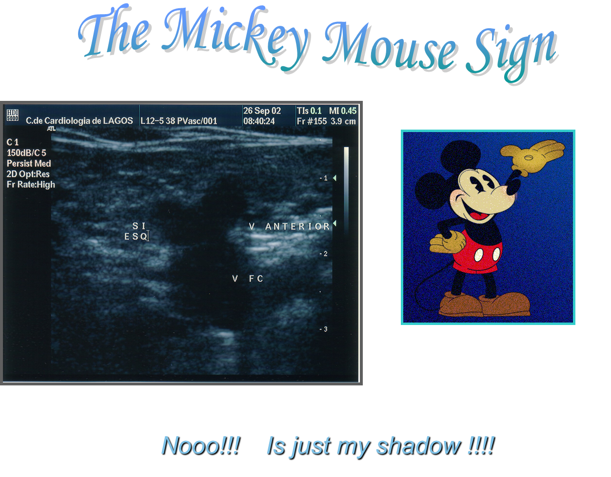 "Mickey mouse sign" ultrassonography detection of accessory anterior saphenous vein (AASV)